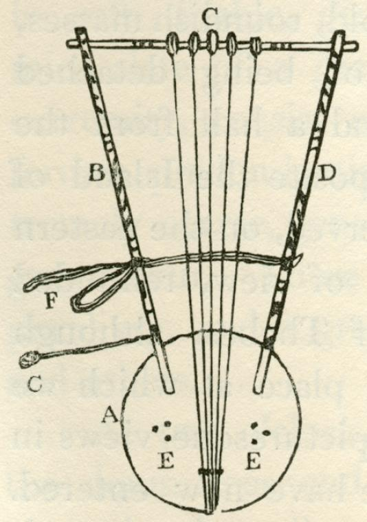 Guitar of the Shageea